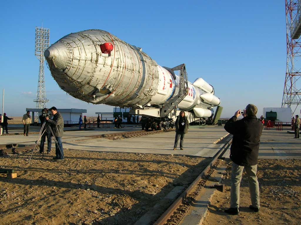 ArabSat 4B Launch campaign. The Proton-M, with Breeze-M upper stage and the payload, arrive at Pad No. 39.